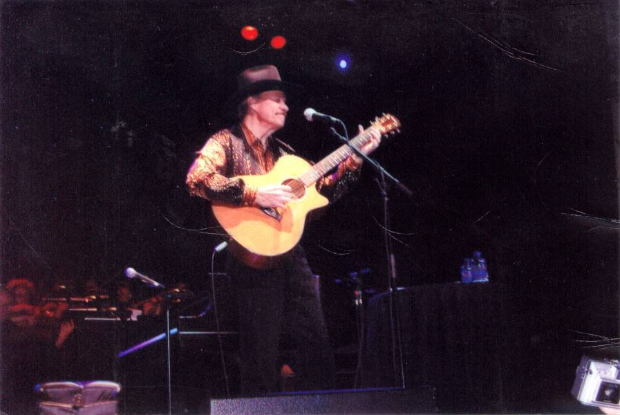 David Gates of 1970s soft rock group Bread, performing at the Mohegan Sun Casino, Connecticut in 2008